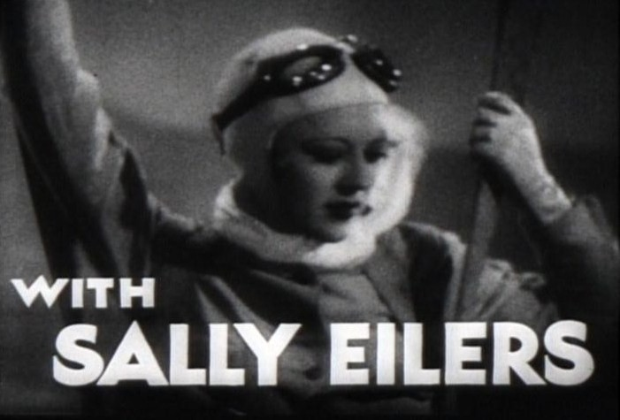 Frame from the public domain trailer for First National's 1933 film Central Airport showing Sally Eilers and her name in type